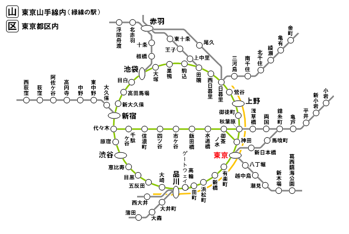 Area of stations in Tokyo-tokunai. Prepared by User:Highexpress.